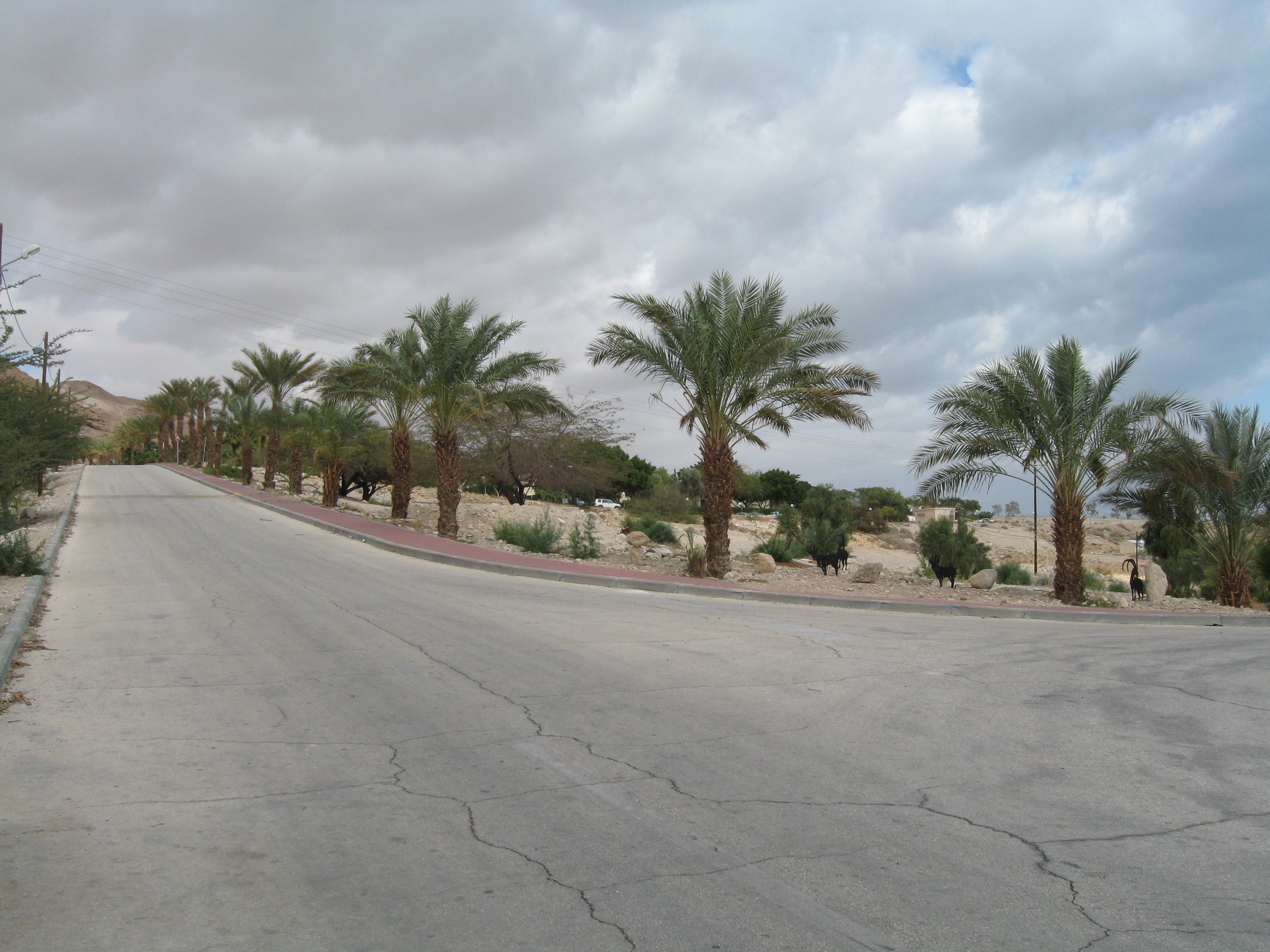 The entrance of Mitzpe Shalem